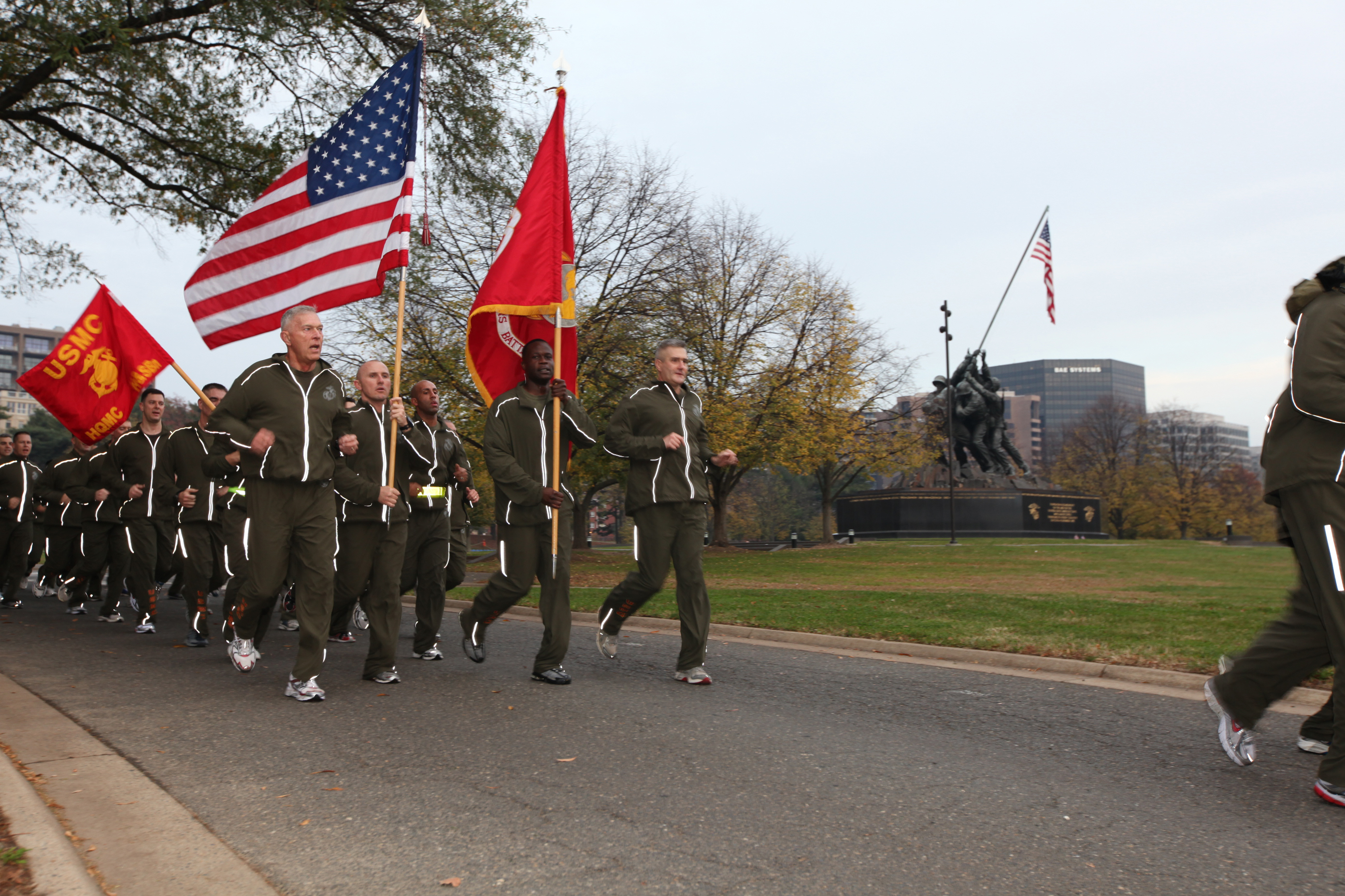 origional caption: Commandant of the Marine Corps Gen. James T. Conway leads a formation of hard charging devil dogs past the Marine Corps War Memorial Nov. 10 for a motivational birthday run. This day marked the 234th anniversary of when a committee from the Continental Congress met in a Philadelphia tavern and stood up two battalion of Marines, an organization that is now known as one of the world's most elite fighting force.